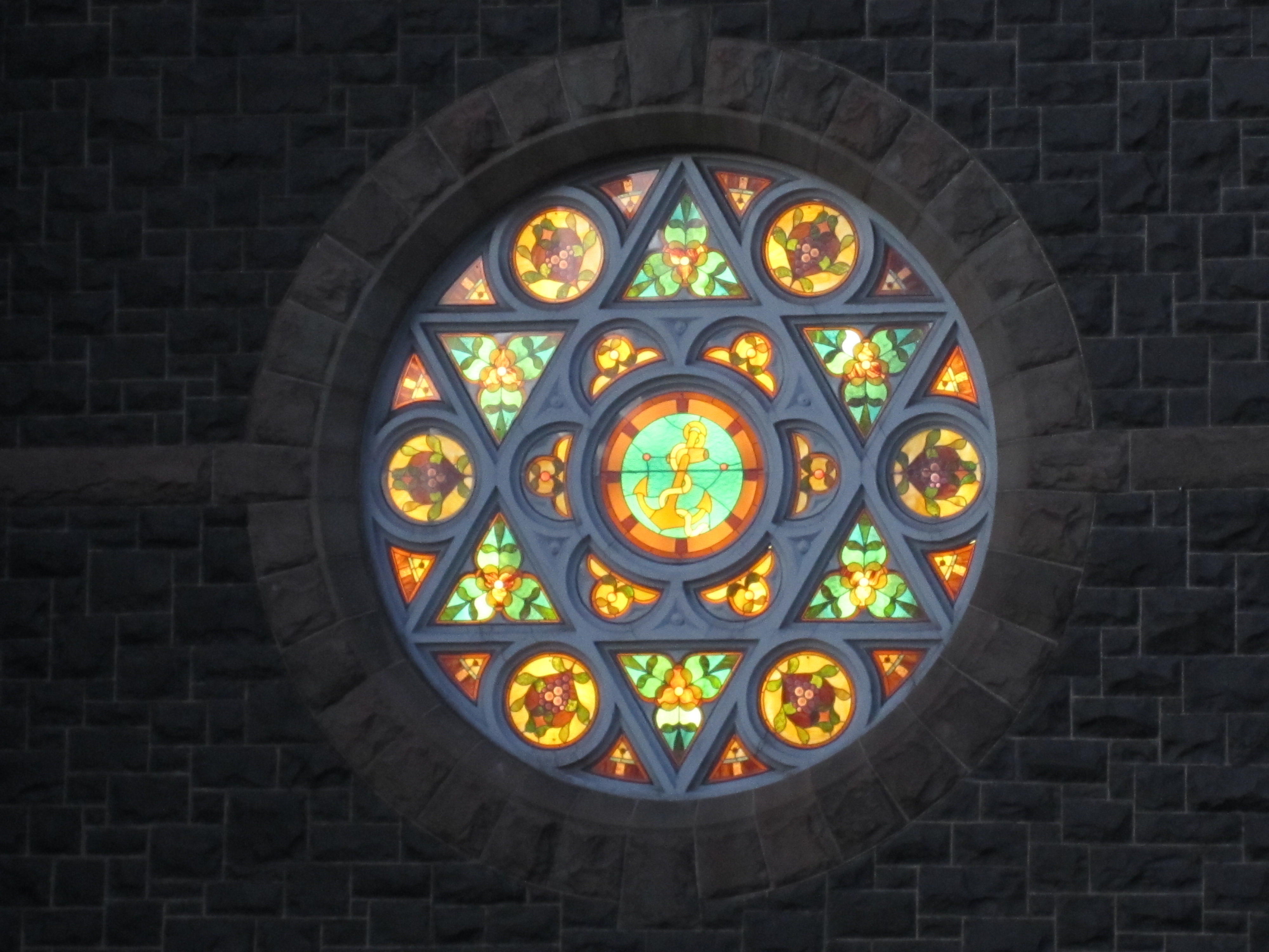 First Presbyterian Church in downtown Portland, Oregon in 2012